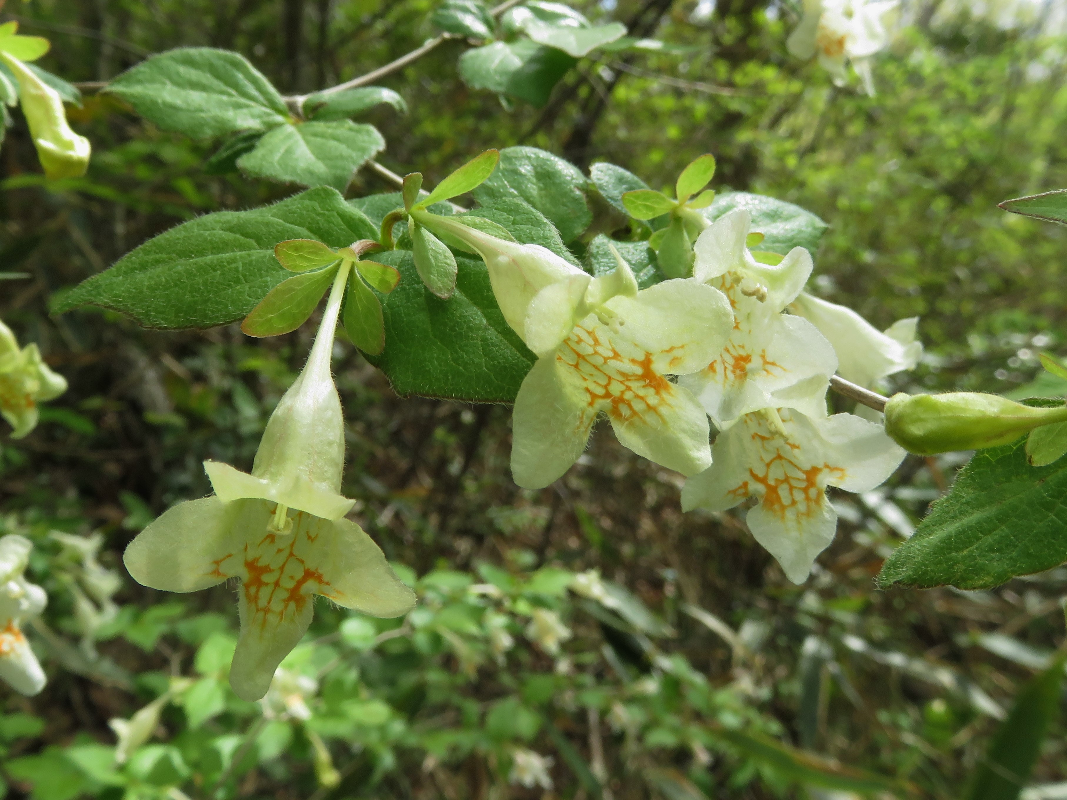 Abelia tetrasepala, Hama-dori area, Fukushima pref., Japan